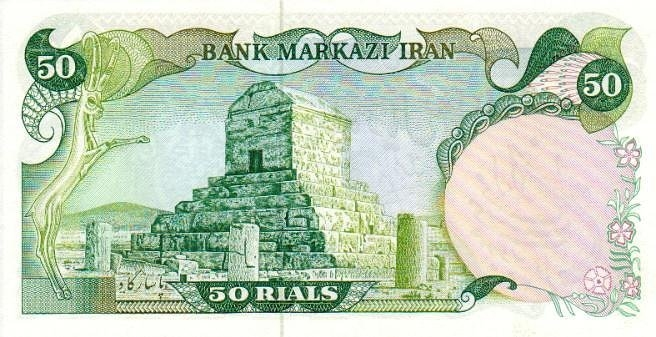 back of paper money of iran ; 50 rial, published between 1974-1979; picture of mausoleum of cyrus the great , pasargad